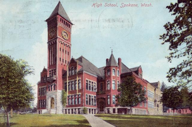 Lewis and Clark High School